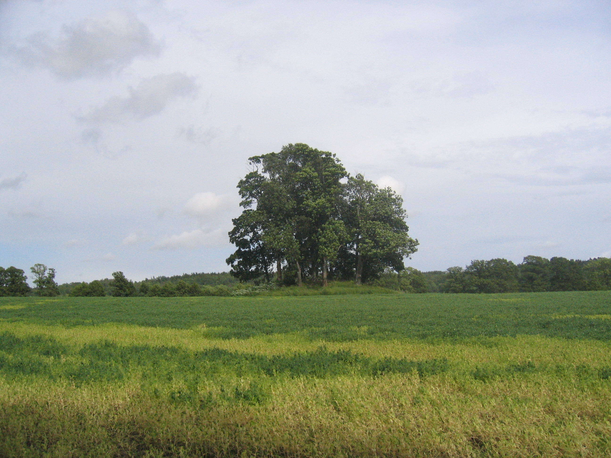 Farmandshaugen in Tønsberg. Archeological site in Tønsberg, Norway. One of Harald Haarfagres sons, Bjorn Farmand should be burried here.